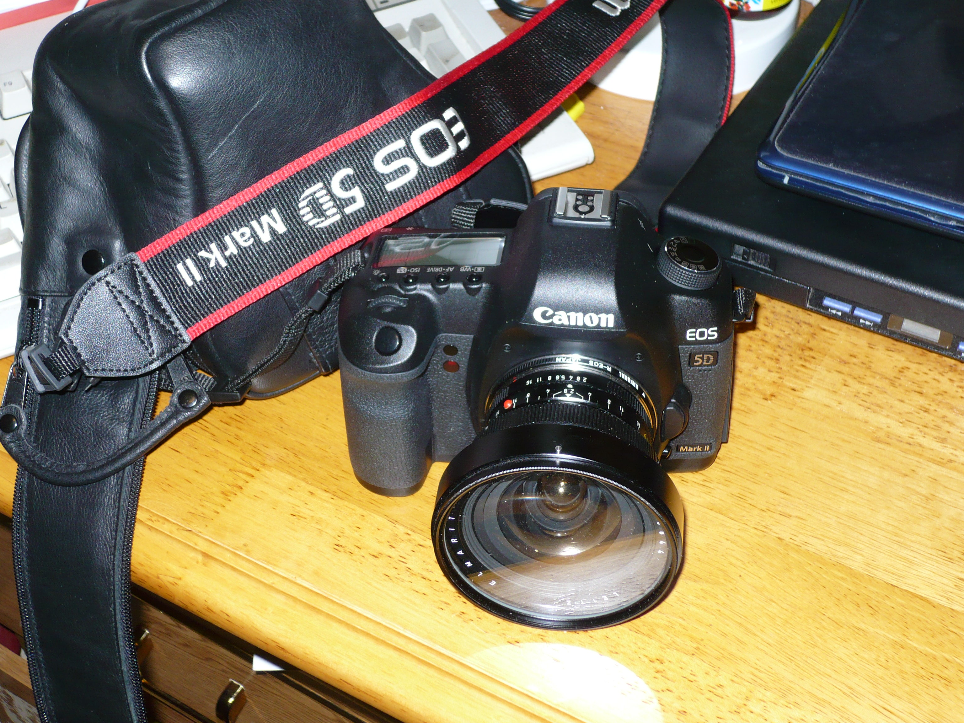 CANON 5D MARK II + RAYQUAL ADAPTER + LEITZ ELMARIT R19 wide angle lens